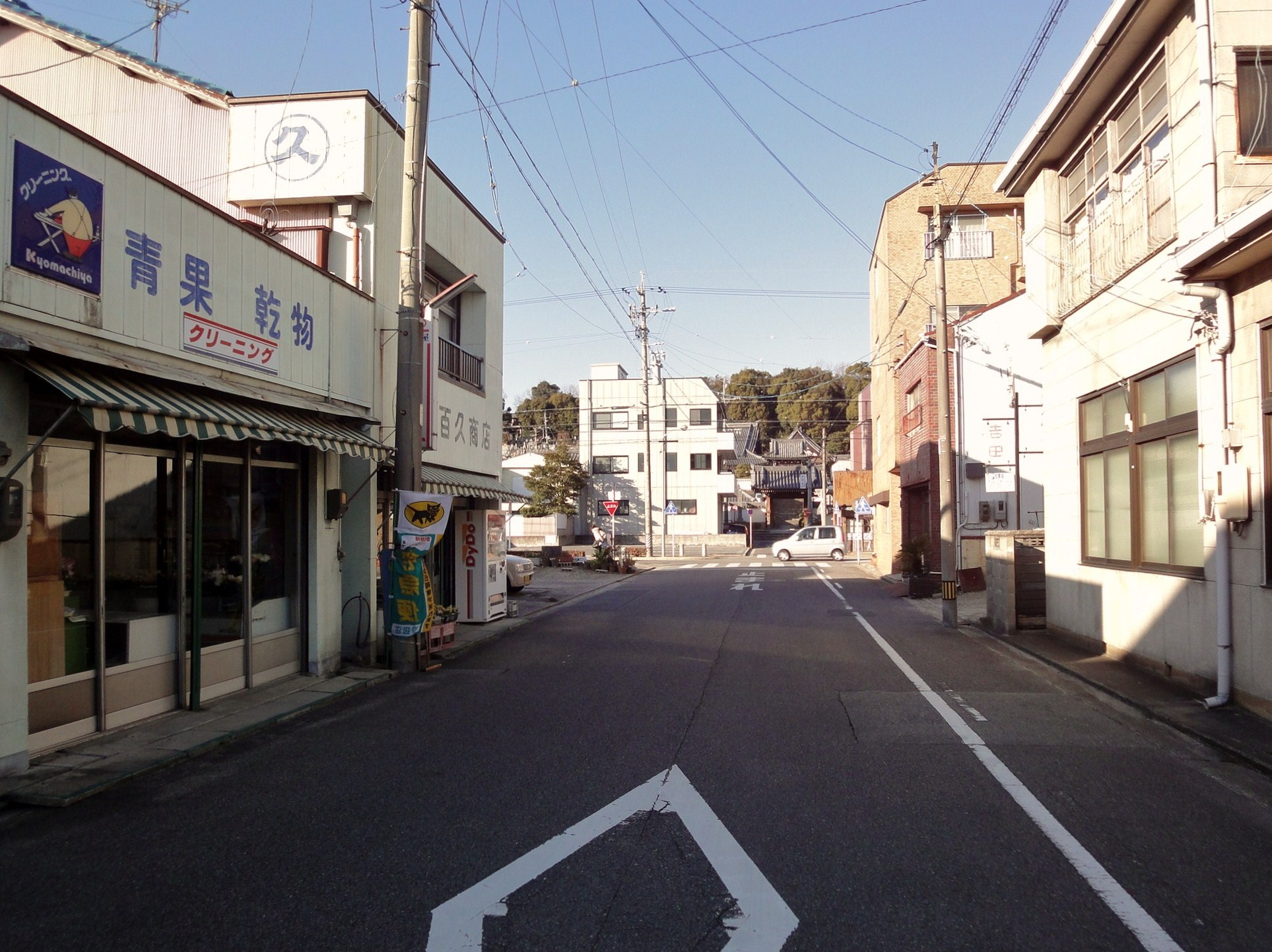 Monzen Dori, in which street Okazaki City, Aichi Pref, Japan.